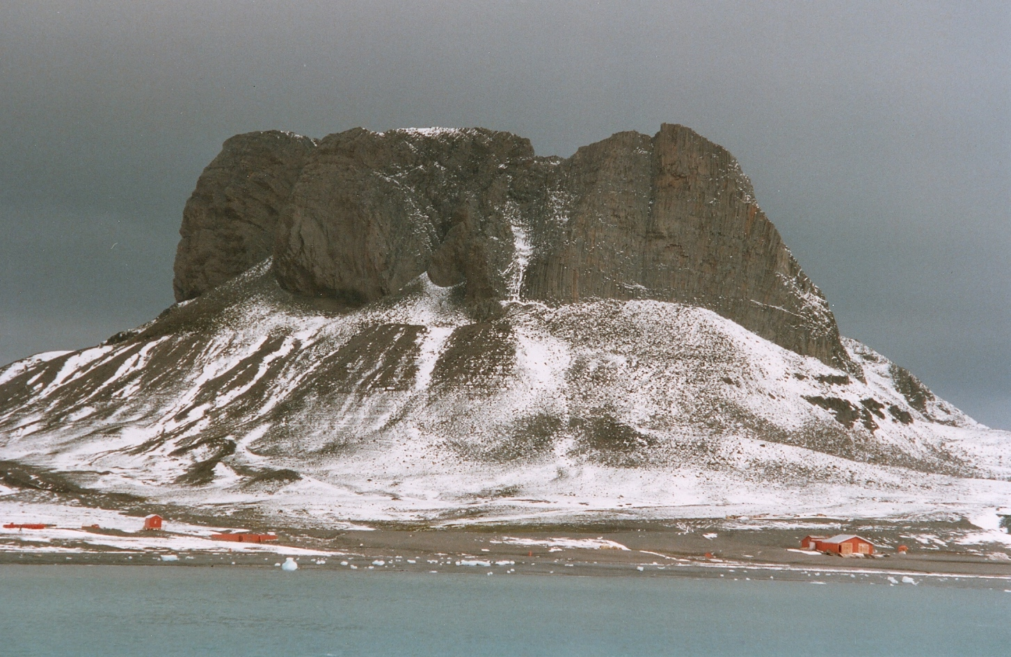 Jubany Scientific Station is an Argentine permanent base in the Antarctic located at 62°14′S 58°40′W / 62.233°S 58.667°W / -62.233; -58.667, first settled in 1953 in King George Island among the South Shetland Islands